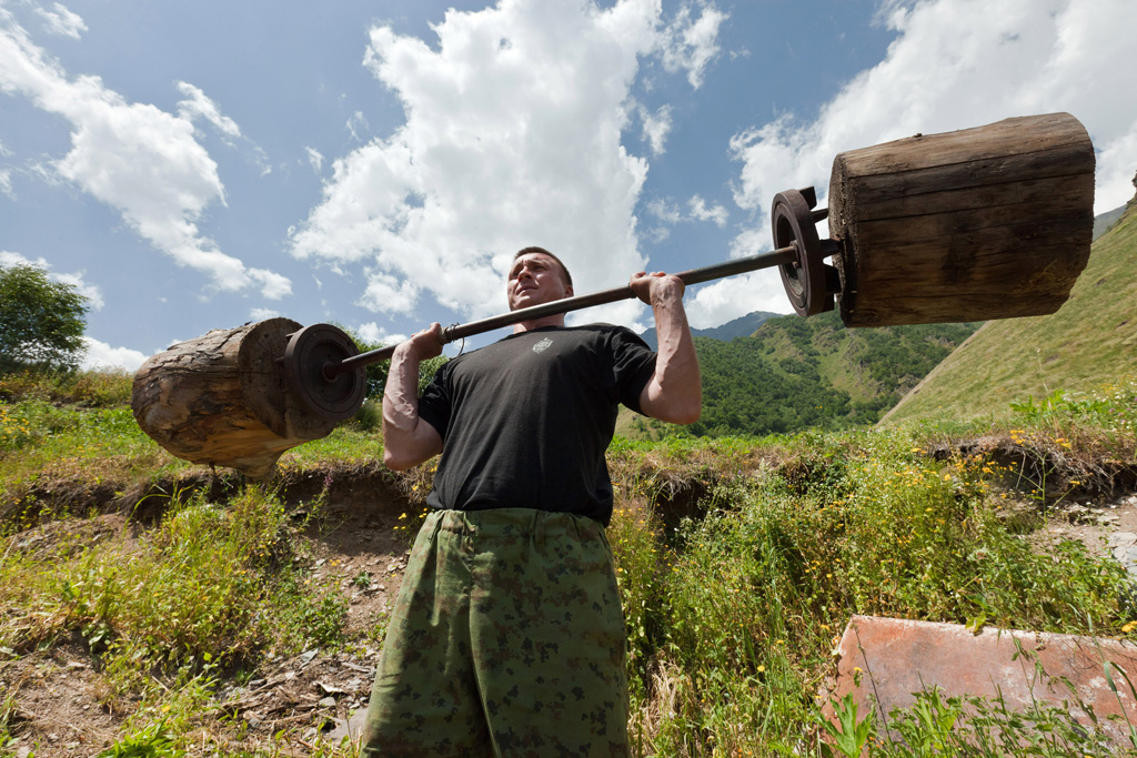 “Border Service at Russian-Georgian border”. A border guard at the Russian-Georgian border.